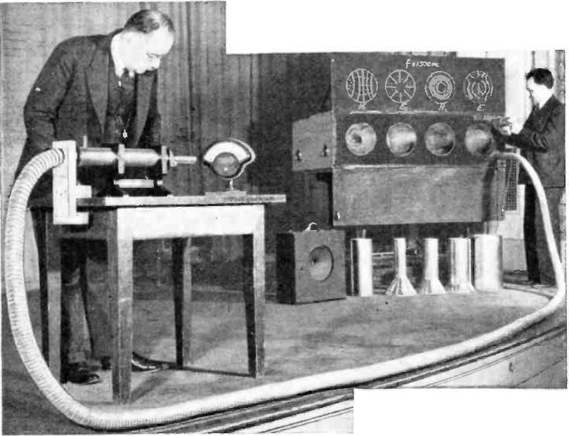 Demonstration in 1938 of the waveguide before the Institute of Radio Engineers by the inventor, Bell Telephone Laboratory scientist George C. Southworth (left). Behind the blackboard (right) were several vacuum tube oscillators producing 1.5 GHz (8 inch, 20 cm) microwaves of different modes. He demonstrated that they could pass through the 25 ft flexible metal waveguide and be detected by a receiver consisting of a silicon diode coupled to an amplifier and galvanometer. He demonstrated further properties of the waves: Using a metal paddle reflector he created standing waves. Using an electric field probe he demonstrated the E field structure of the different modes. By using progressively smaller diameter pipe (seen at right on floor) he showed that waves would not propagate through a waveguide that was under a certain diameter, that is, each waveguide had a cutoff frequency. A brass grating in one orientation could block the waves but in perpendicular orientation allowed them through The propagation velocity was less than that of waves in open air. A soft rubber rod could also conduct the waves, forming a dielectric waveguide. Caption: Dr. George C. Southworth and his assistant A. E. Bowen of Bell Telephone Labs show how extremely short electric waves can be guided through a flexible metal pipe